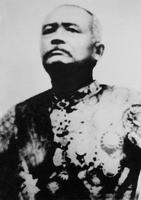 Image of the King of Laos, Sakarindra